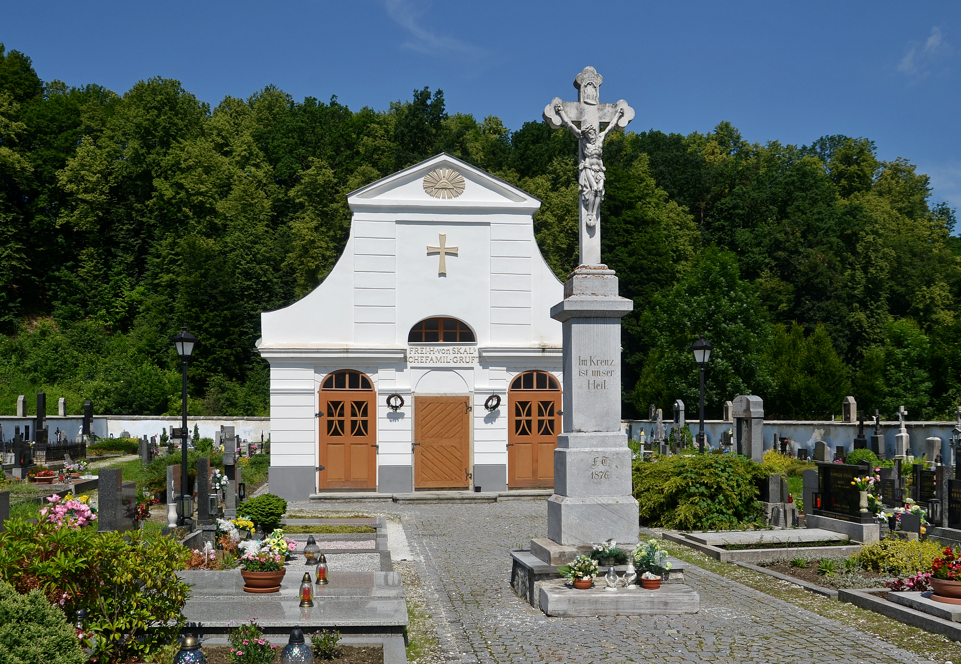 Kobylá nad Vidnavkou (Jungferndorf), Czech Silesia - cemetery